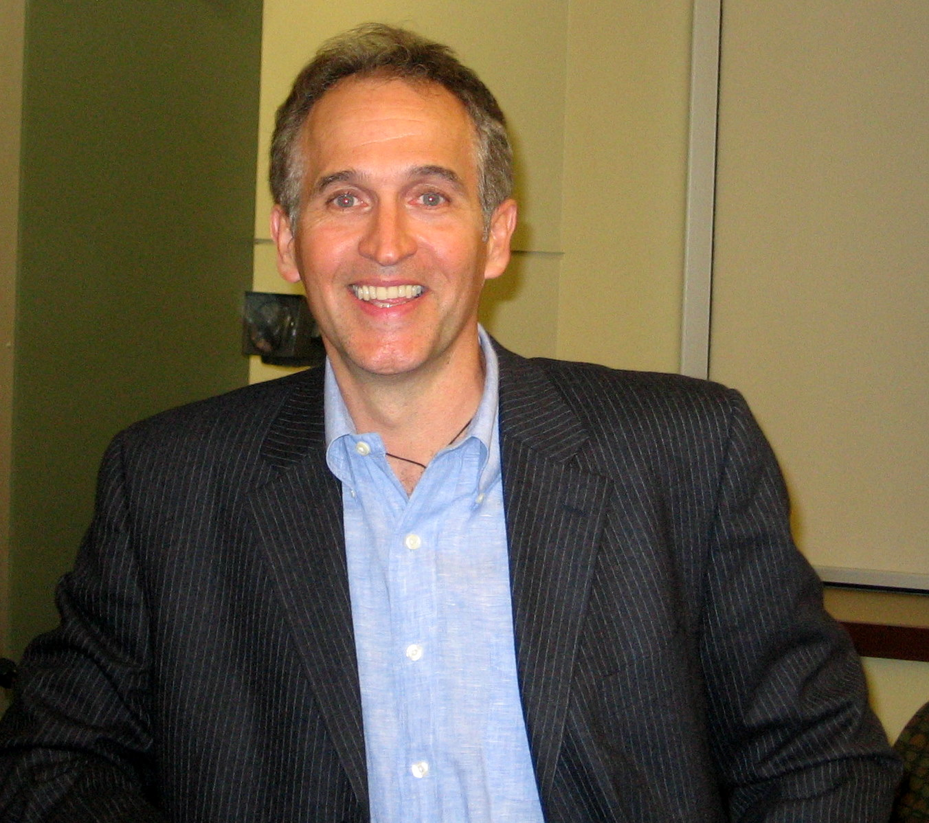 National Geographic underwater nature photographer Brian Skerry at an event at Boston University